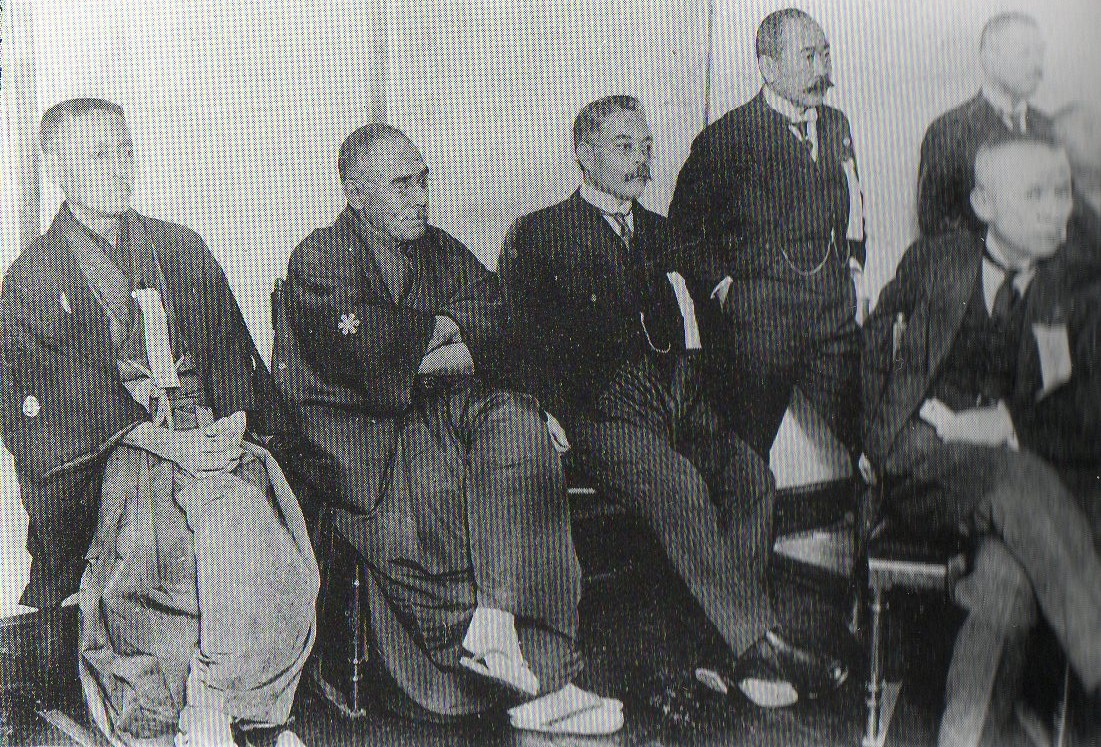 the top executives of Japanese political party KenseiKai (Constitutional Party). L to r, Ozaki Yukio, Katō Takaaki, and Hamaguchi Osachi.